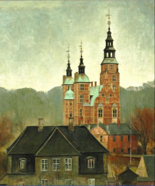 Rosenborg Castle in Copenhagen, Denmark